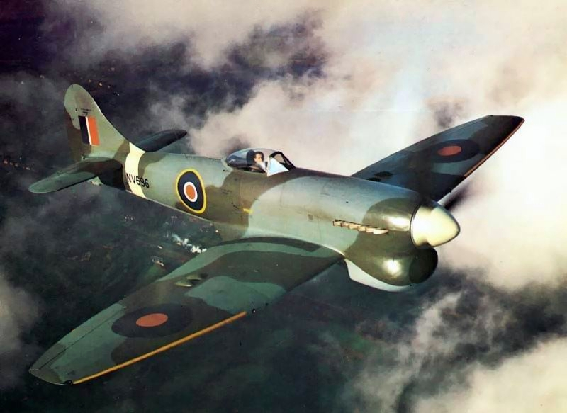 A Royal Air Force Hawker Tempest V Series II (s/n NV696) on a test flight from the Hawker factory Langley, near Slough, on 25 November, 1944. This aircraft went into service with No. 222 Squadron RAF a month later. The aircraft is piloted by William "Bill" Humble, who normally did not wear a helmet.